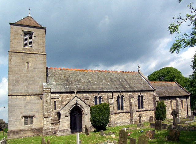 Hibaldstow Church. Church of St. Hibald. The church tower fell down during rebuilding in 1875 and was not replaced until 1958 (hence marked as church without spire or tower on 1940's OS map). The new tower is of concrete blocks to look like ashlar and the effect is, to my eye, rather industrial.